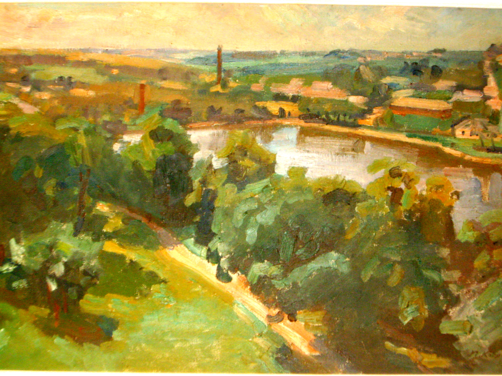 Панорама города Богородицка